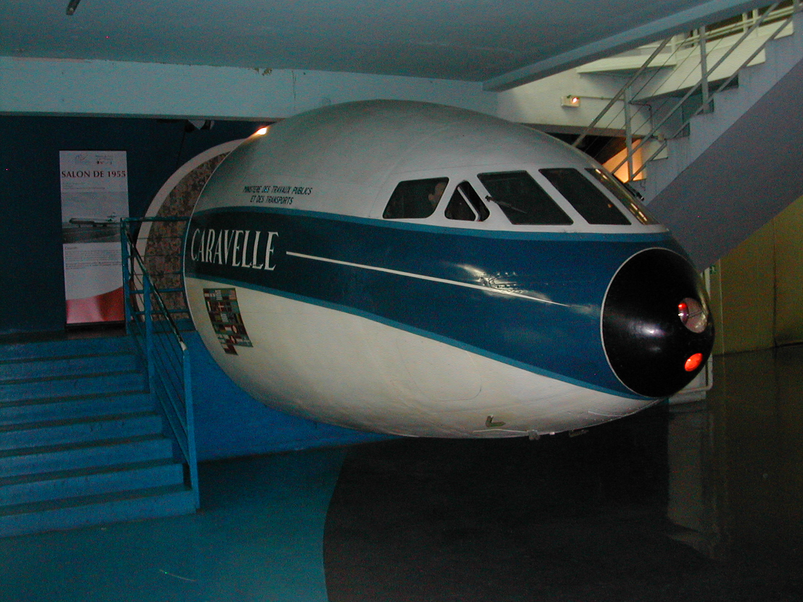 Cockpit of the second prototype of Caravelle in the Air and Space Museum in le Bourget